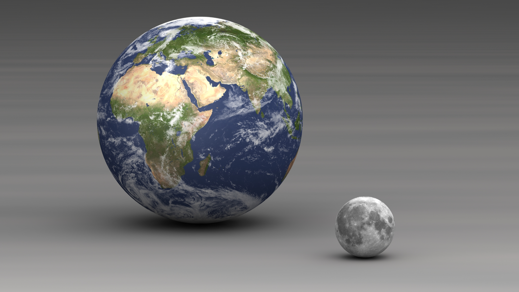 The Earth and the moon with their size at the exact same scale.